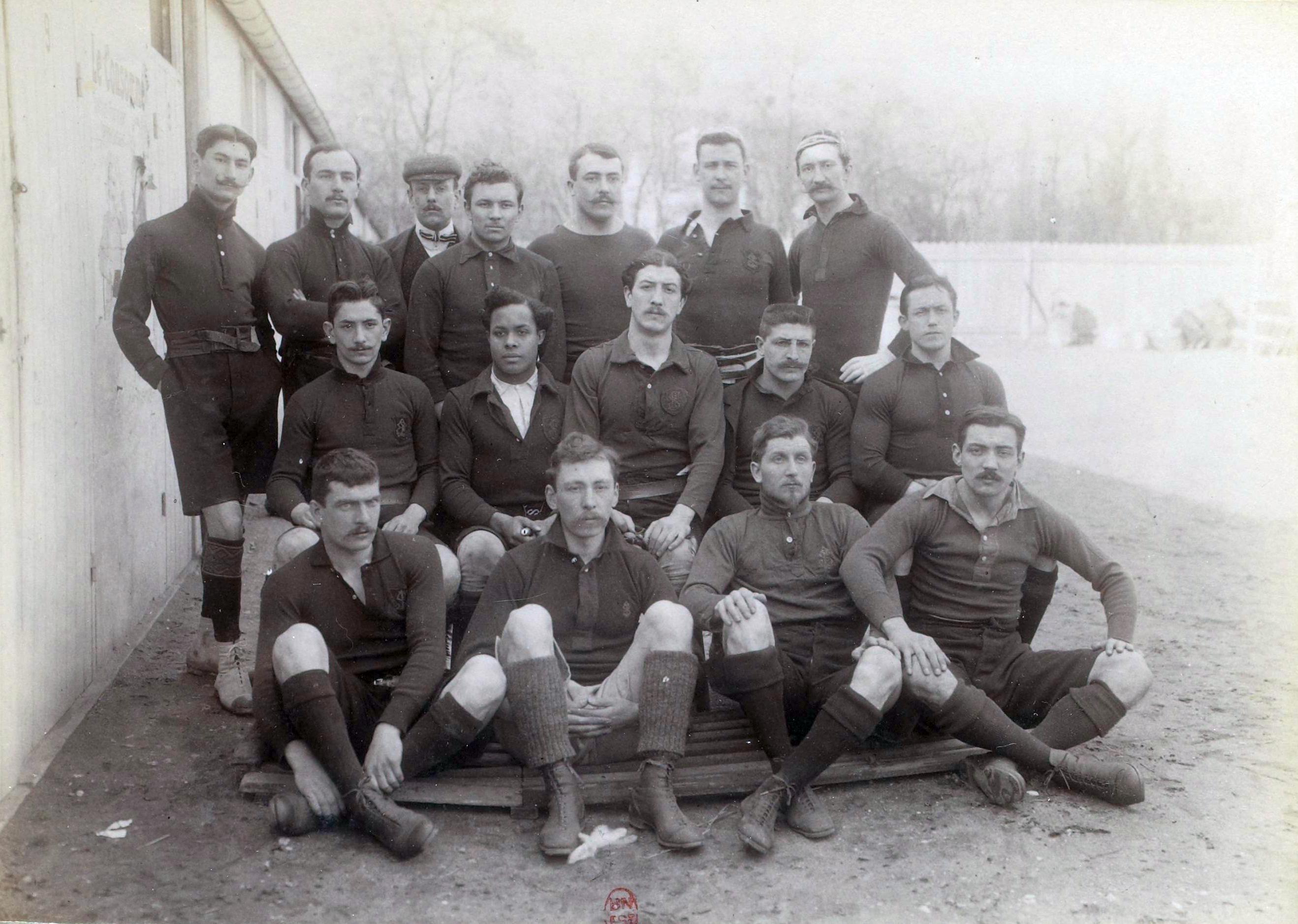 [Collection Jules Beau. Photographie sportive] : T. 15. Année 1901 / Jules Beau : F. 13v. Stade français (p.030).